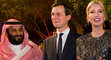 Jared , Ivanka and Mohammad bin Salman in 2018